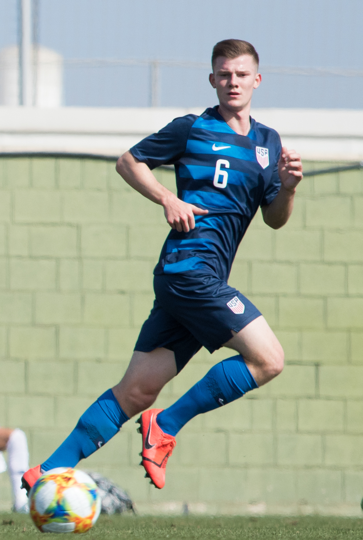 USA U20 v France U20, 22 March 2019